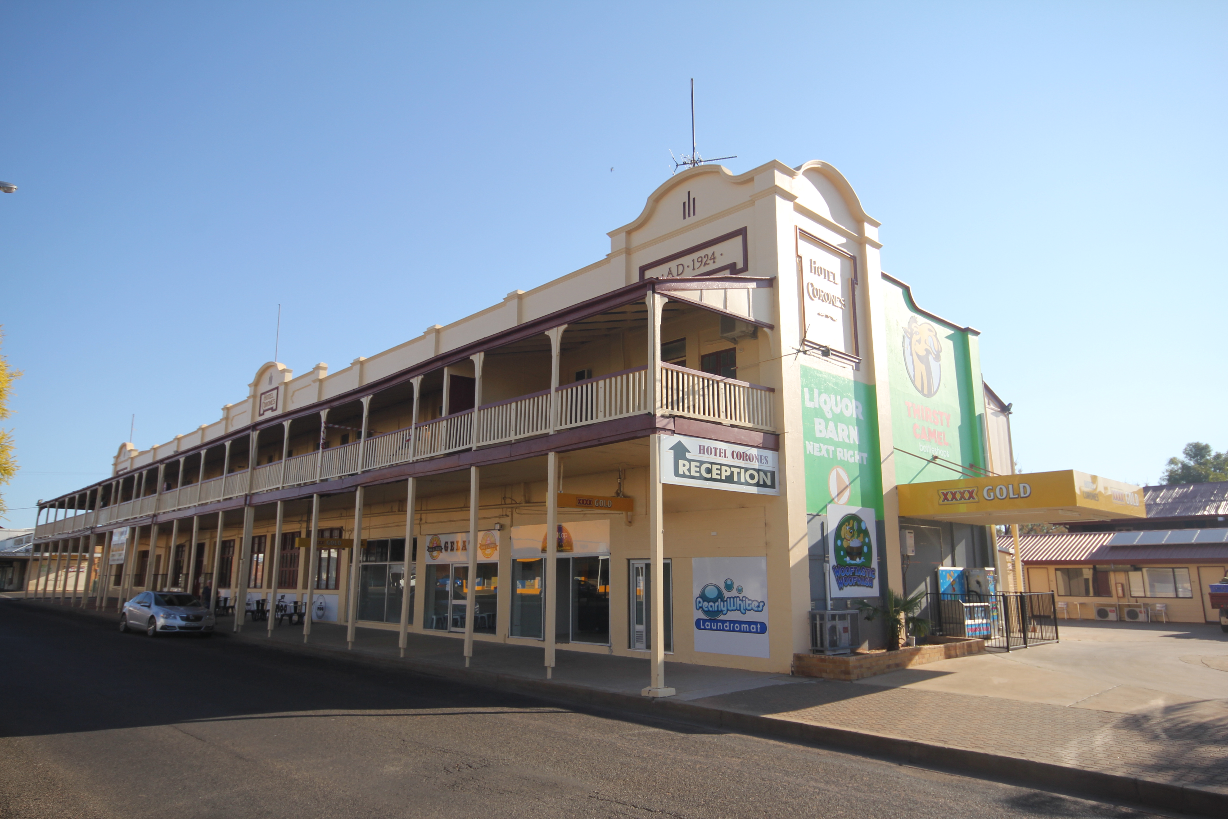 The Hotel Corones in Charleville, Queensland, Australia, as seen from the town's main street in September 2014.